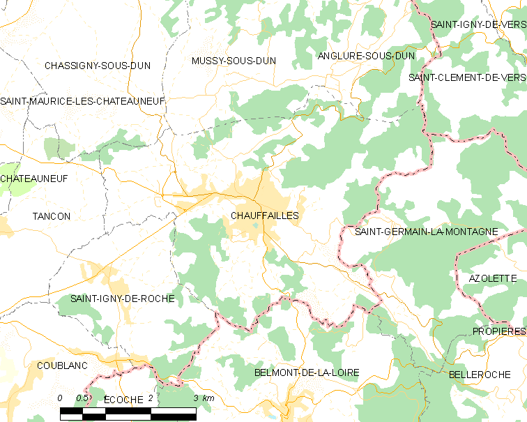 Map of French municipality